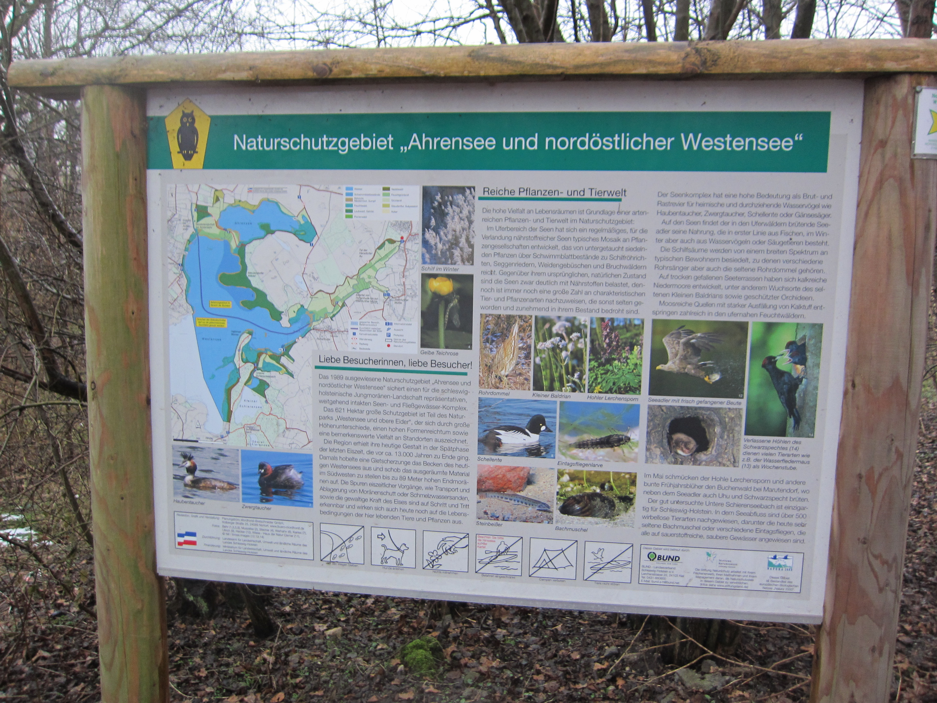 Information sign of the nature reserve "Ahrensee und nordöstlicher Westensee" in Schönwohld near Achterwehr